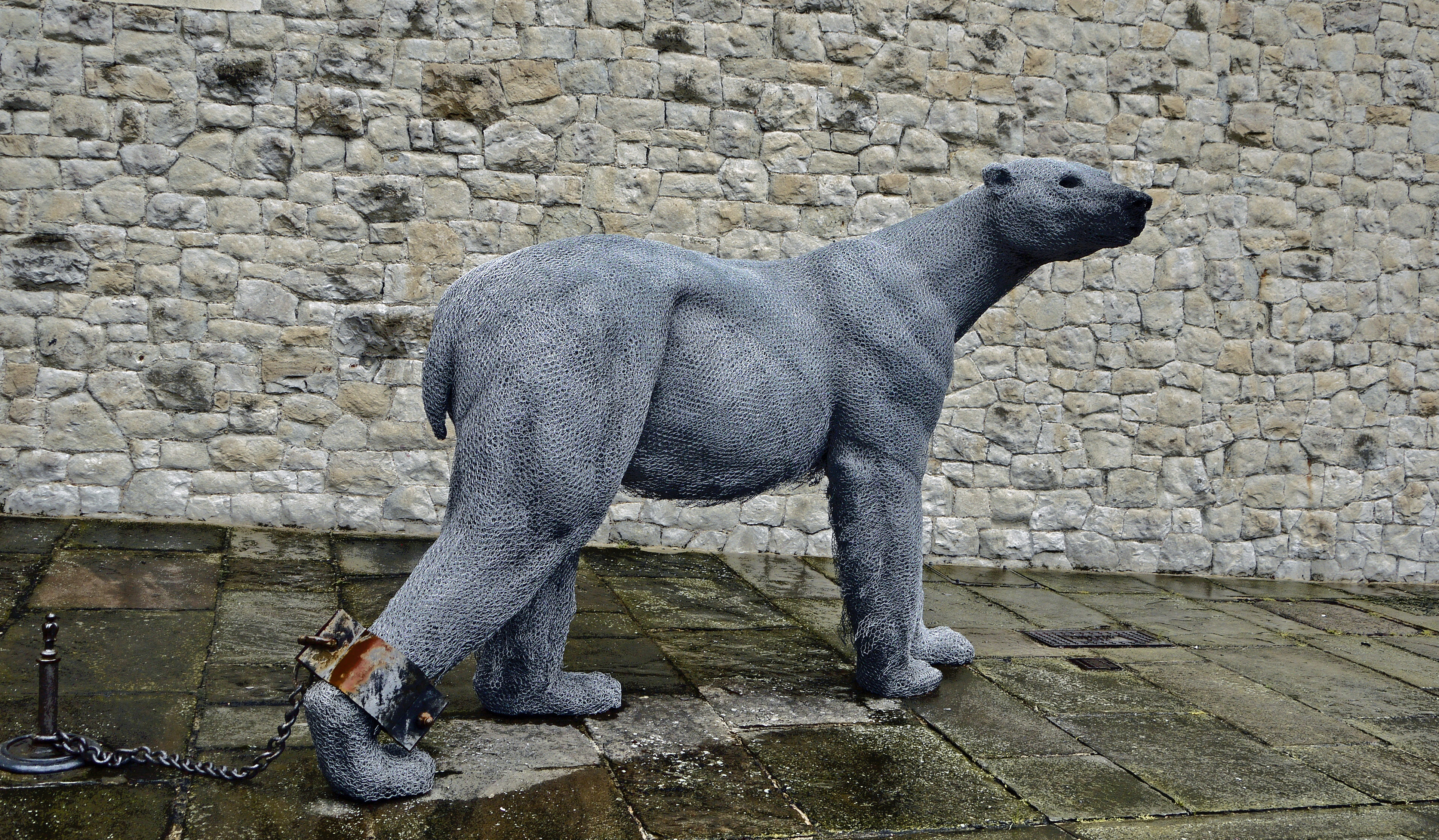 Once upon a time, the Tower of London had a menagerie, will all sorts of exotic animals. They were eventually moved to Regents Park zoo, but since 2010, you can see Kendra Haste's animal sculptures at the Tower, including this polar bear.